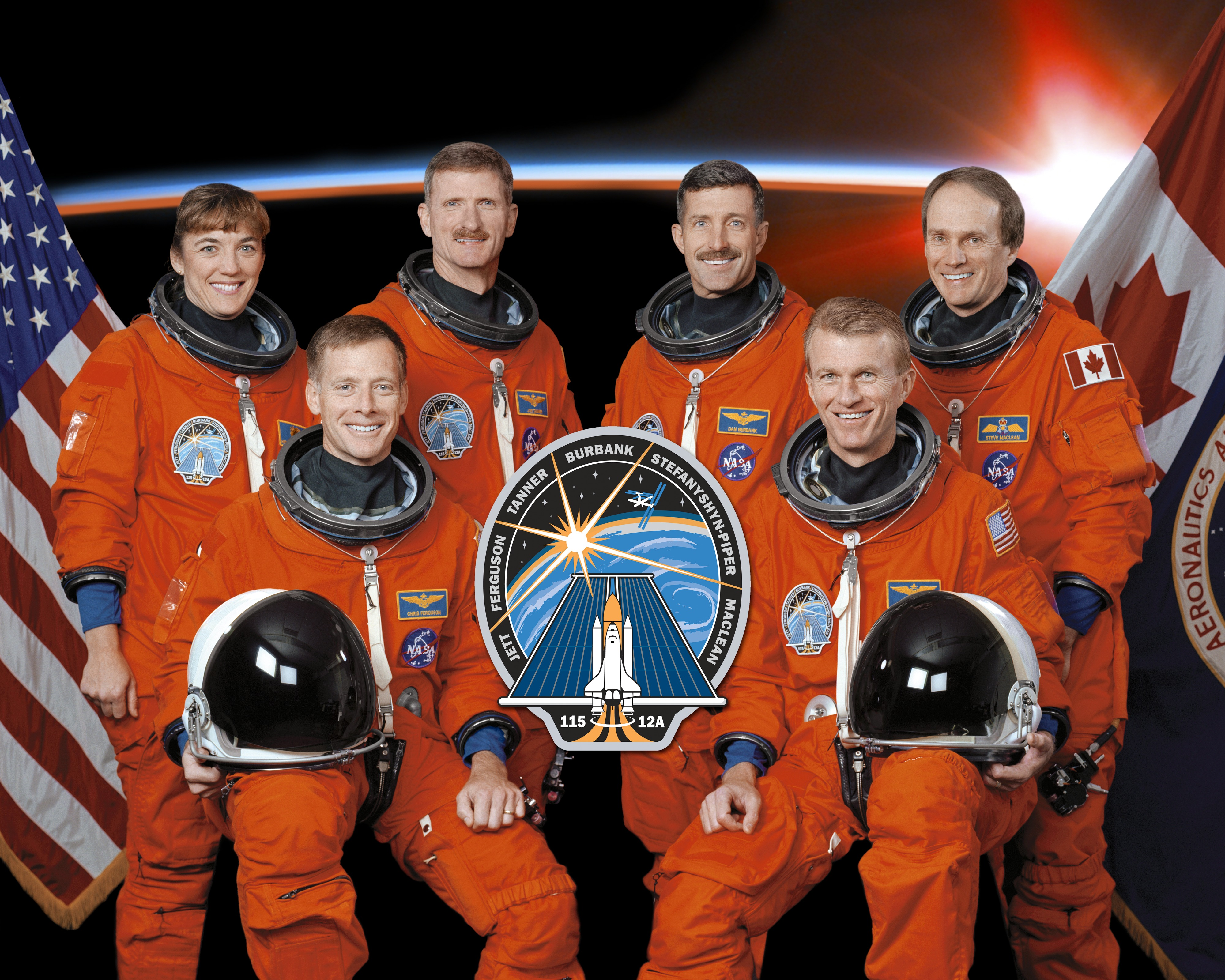 Crew of future Space Shuttle mission STS-115. NASA photo STS115-S-002 taken 8 November 2002. Photo description: :These six astronauts take a break from training to pose for the STS-115 crew portrait. Astronauts Brent W. Jett, Jr. (right) and Christopher J. Ferguson, commander and pilot, respectively, flank the mission insignia. The mission specialists are, from left to right, astronaut Heidemarie M. Stefanyshyn-Piper, Joseph R. (Joe) Tanner, Daniel C. Burbank, and Steven G. MacLean, who represents the Canadian Space Agency.